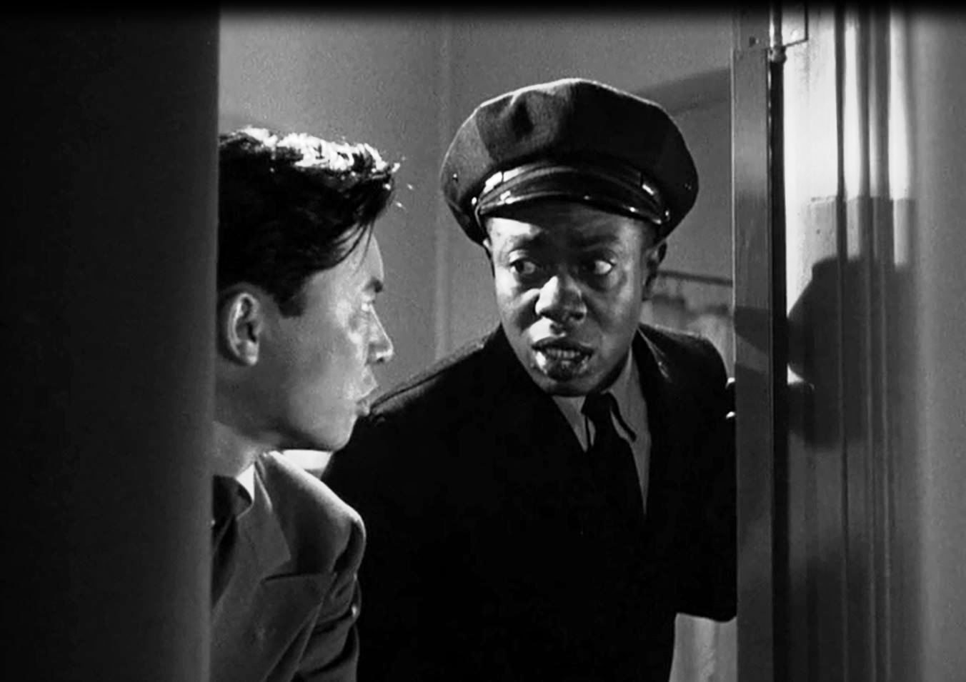 Low resolution screenshot of Victor Sen Yung as Jimmy Chan and Willie Best as Chattanooga Brown from the American film Dangerous Money (1946). The film is in the public domain due to the omission of a valid copyright notice on its original prints.